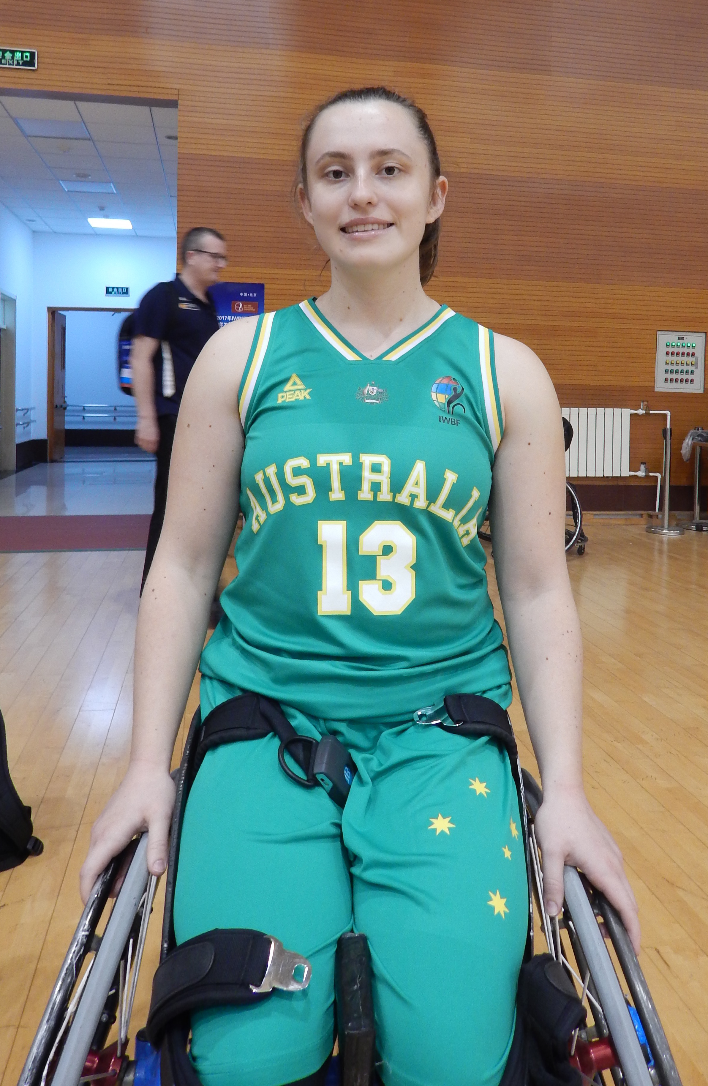 Georgia Mundo-Cook of the Australian Gliders at the 2017 IWBF Asia-Oceania Zone Championships in Beijing